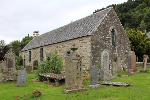 The Old Kirk of Weem